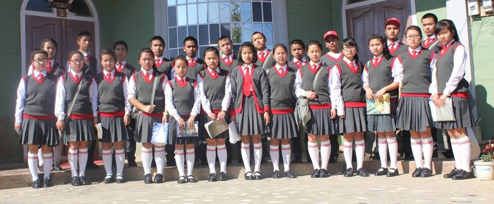 The Class X students of 2013 -2014 session